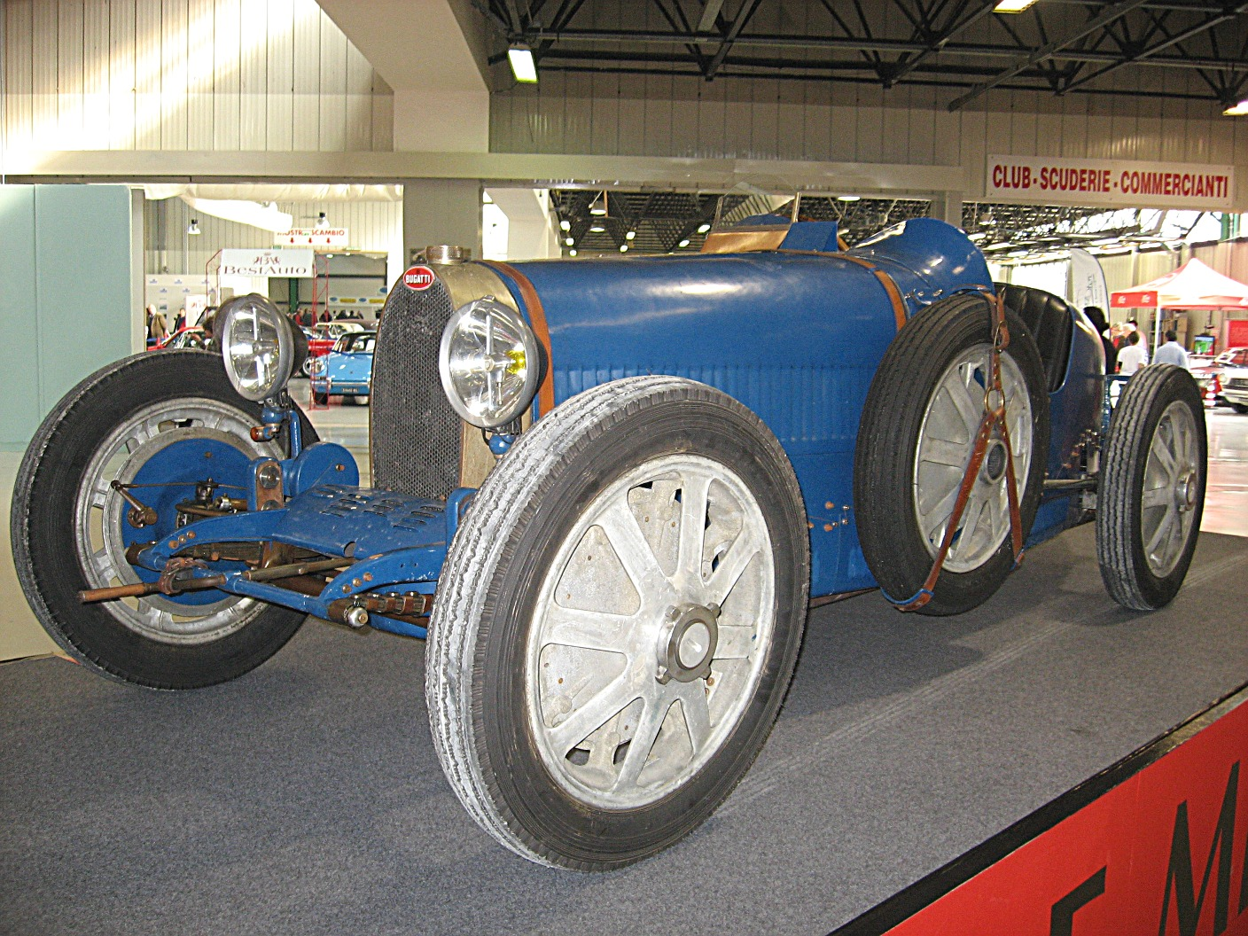 Subject:Bugatti Type 37 Author:Luc106 Date:March 15th, 2007 Event:Old Timer Show 2008 Place/Country: Forlì, Italy I release all rights in the public domain.